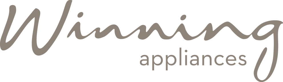 Winning Appliances Logo